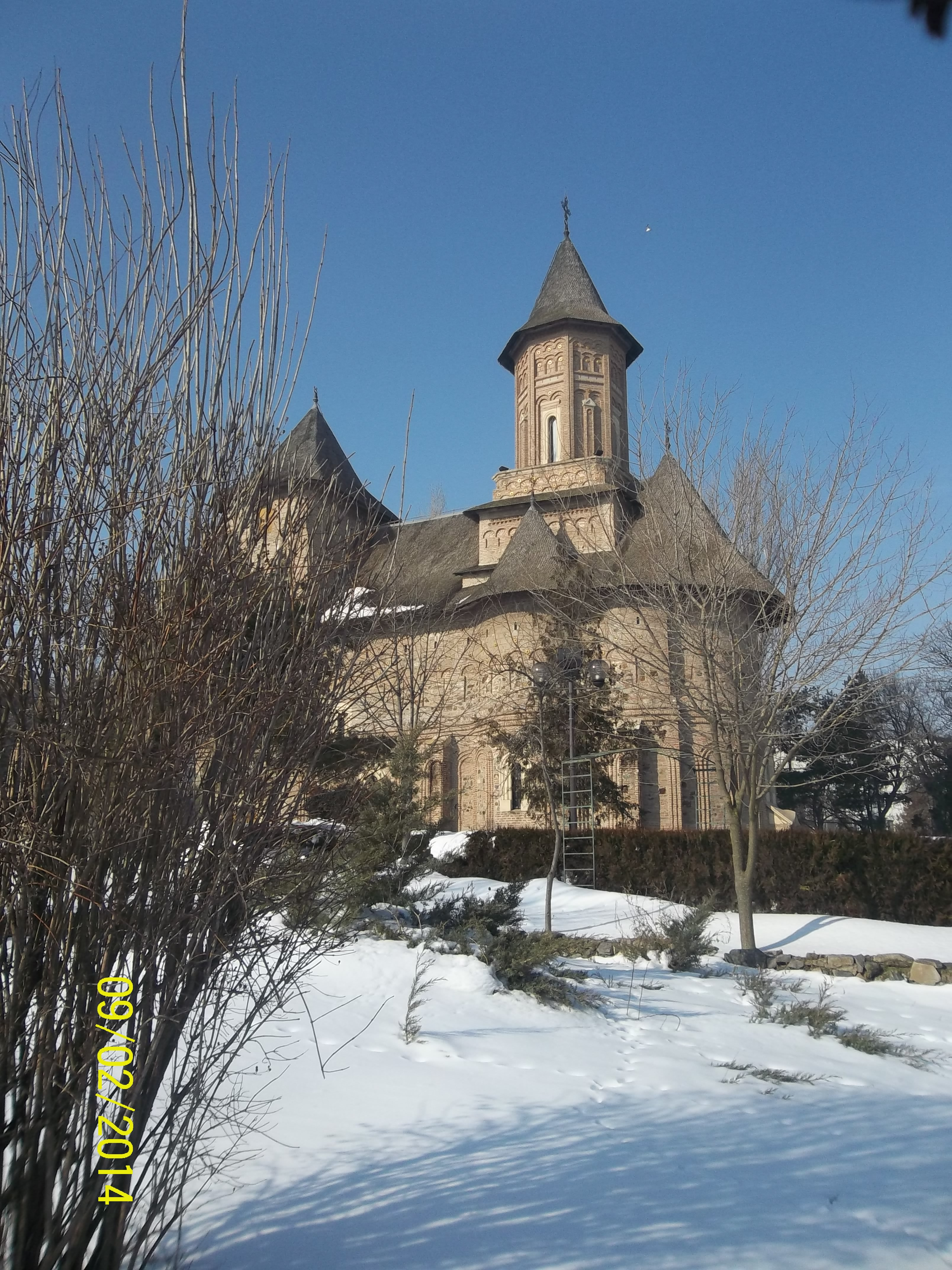 „Precista” fortified church 1647, Galati, Romania 02